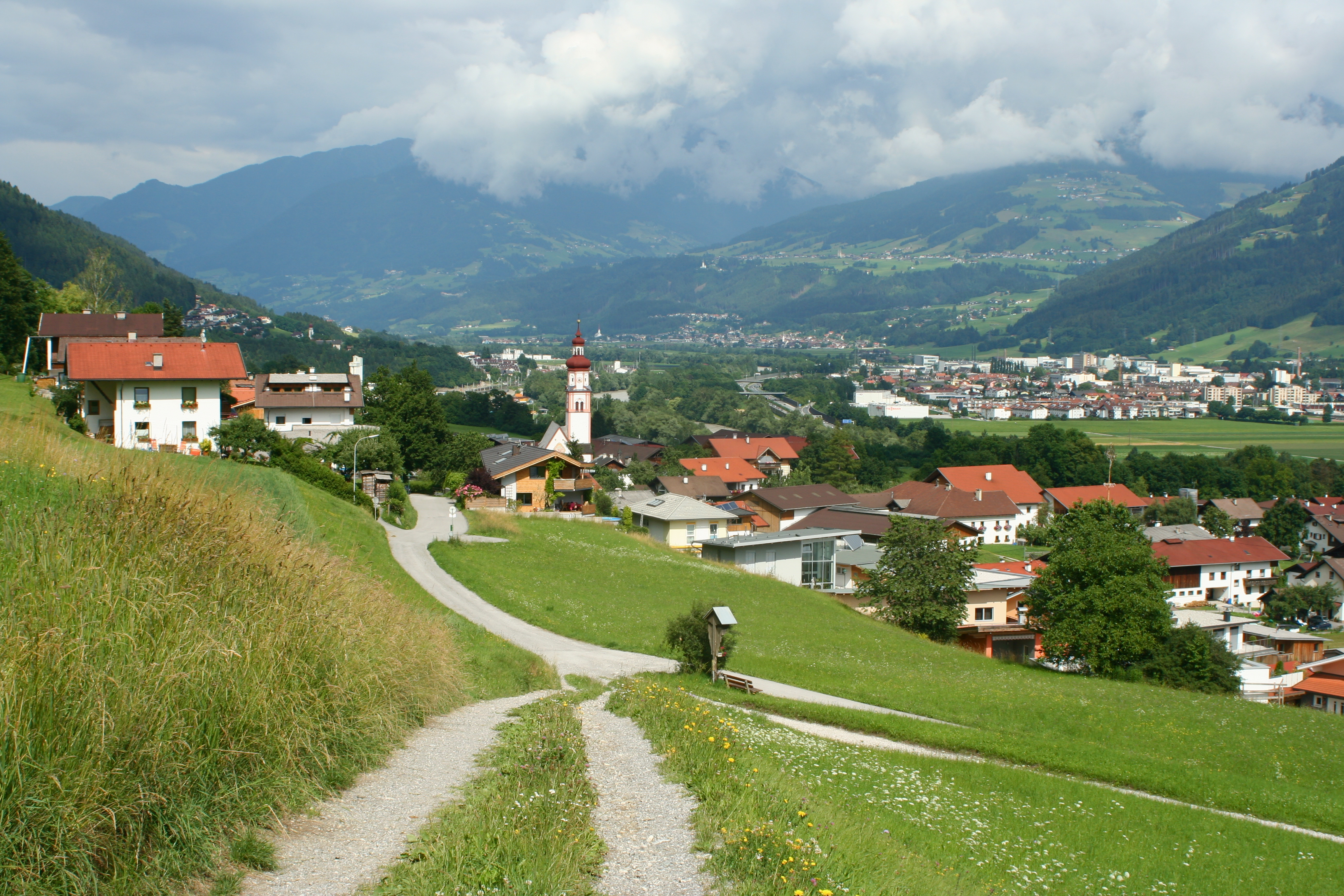 Baumkirchen in Tyrol from West